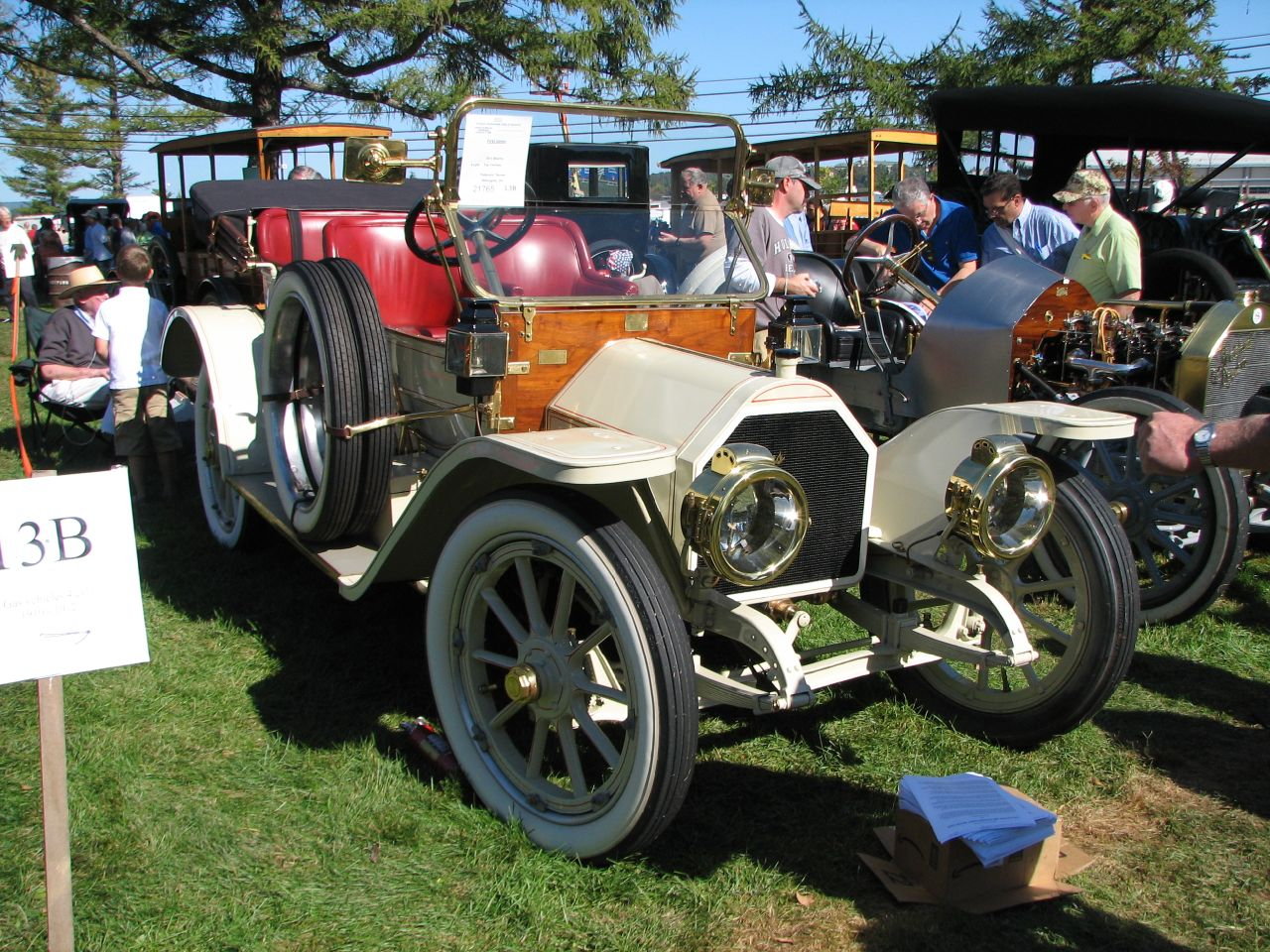 1911 Stearns Model 15-30 Toy Tonneau on display at a car show.